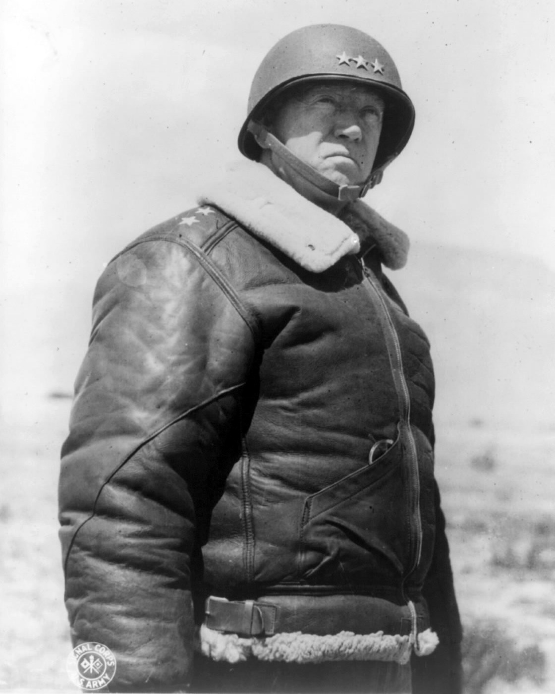 Lieutenant General George S. Patton Jr., 1943. (pictured before his promotion to full General). U.S. Army Signal Corps. "George Patton as Lt. General." March 30, 1943.